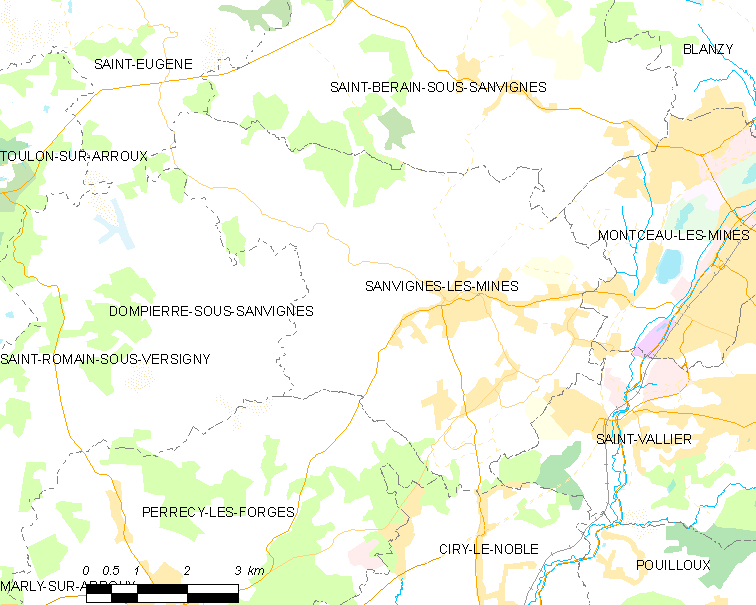 Map of French municipality